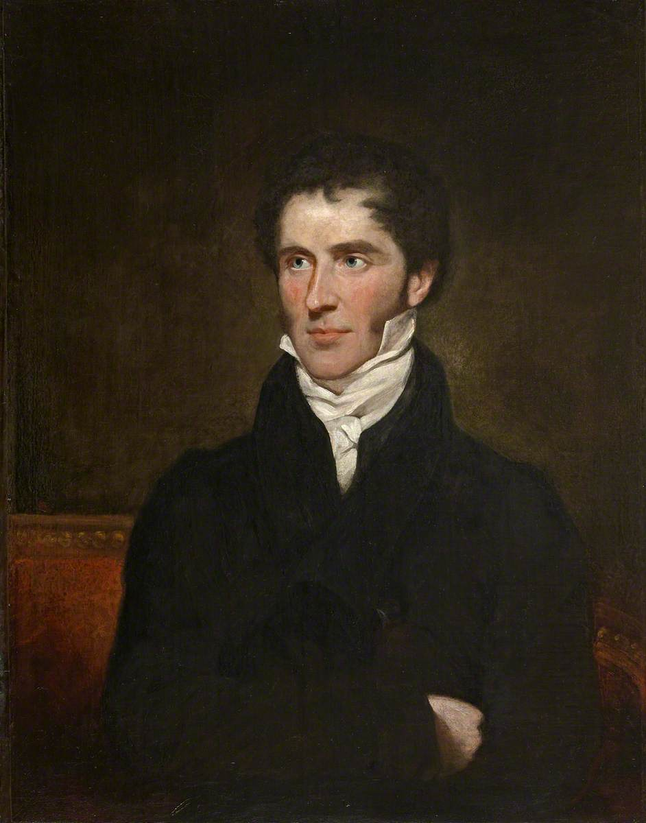 Portrait of Stephen Lushington (1782–1873), English lawyer, judge and politician.